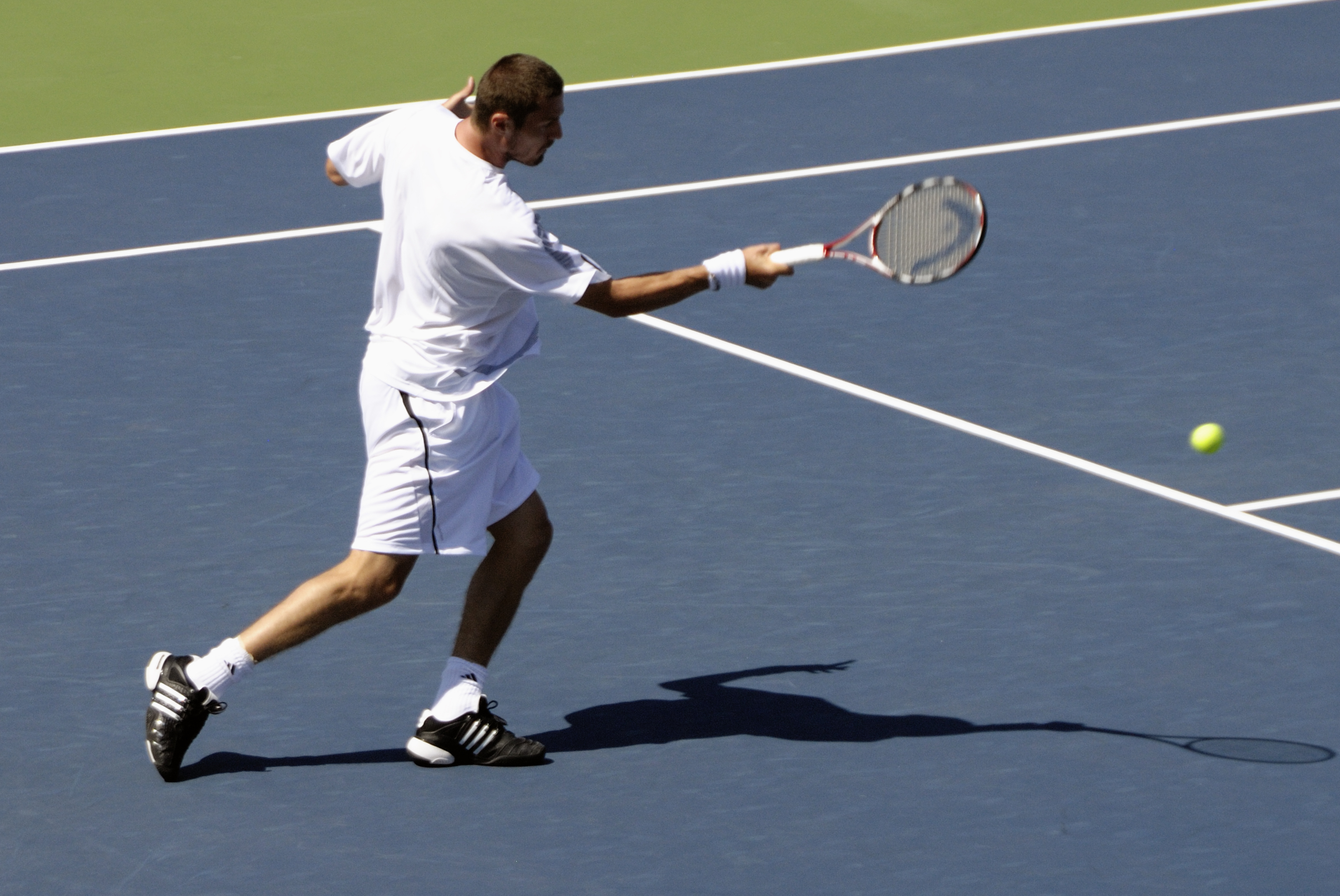 Marat Safin at the 2009 US Open